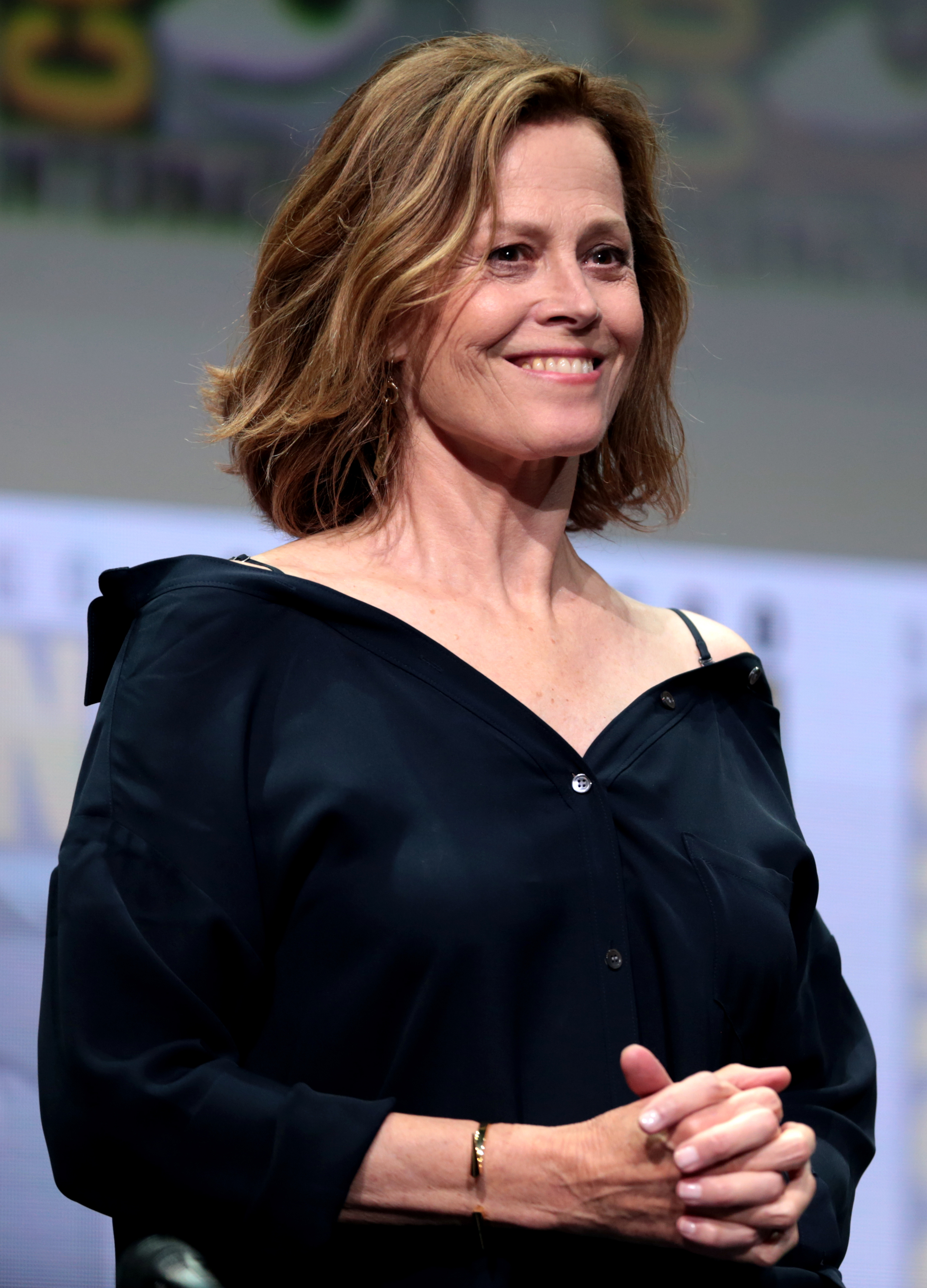 Sigourney Weaver speaking at the 2017 San Diego Comic-Con International in San Diego, California.